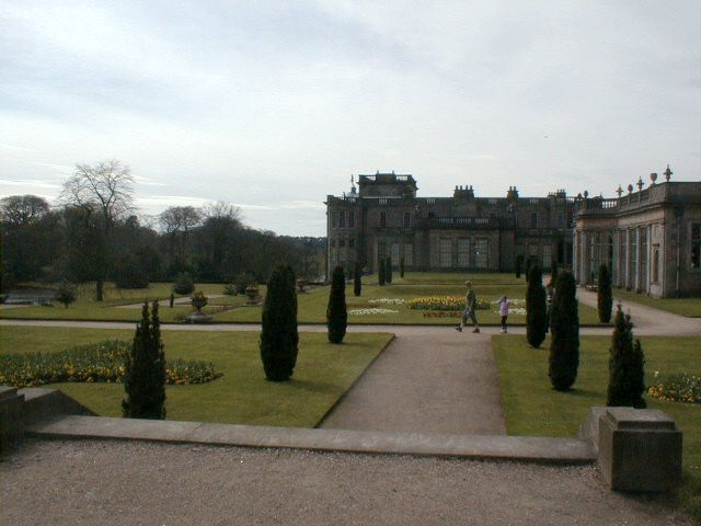 Lyme House